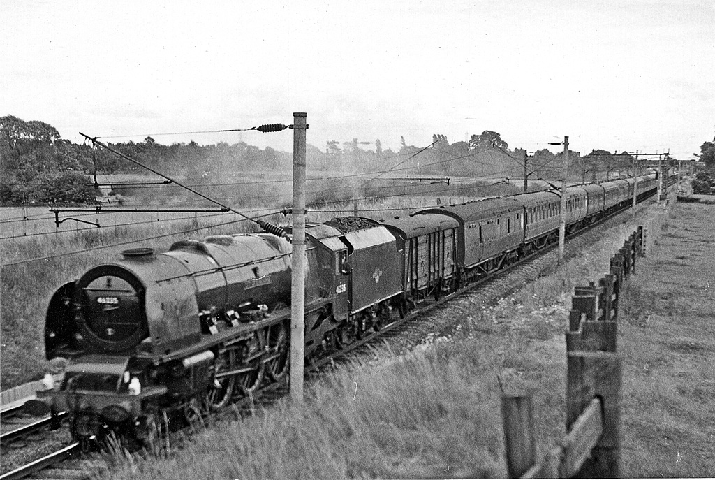 Down express north of Acton Bridge. View SE, towards Crewe etc.; ex-London & North Western West Coast Main Line. The 13.10 Euston - Glasgow, relief to the 'Midday Scot' is hauled by Stanier 'Coronation' No. 46235 'City of Birmingham'. The main line had been electrified between Crewe and Liverpool (Lime Street) since the beginning of the year. The locomotivve is now in Thinktank, Birmingham.